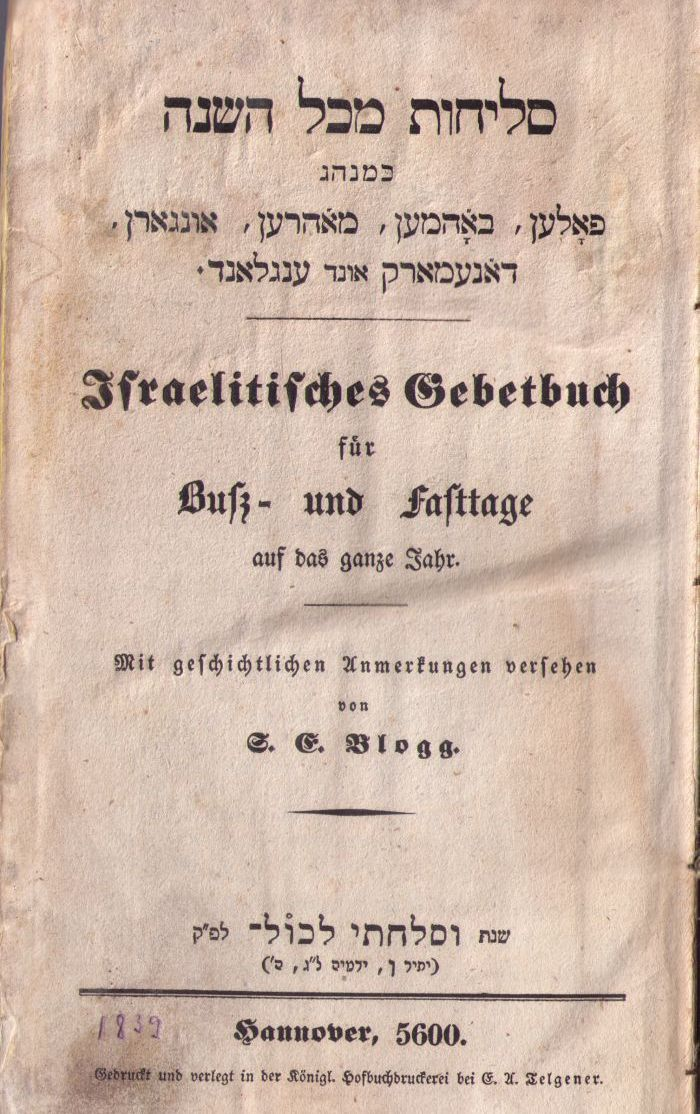 Old Slichot Books printed in Hannover